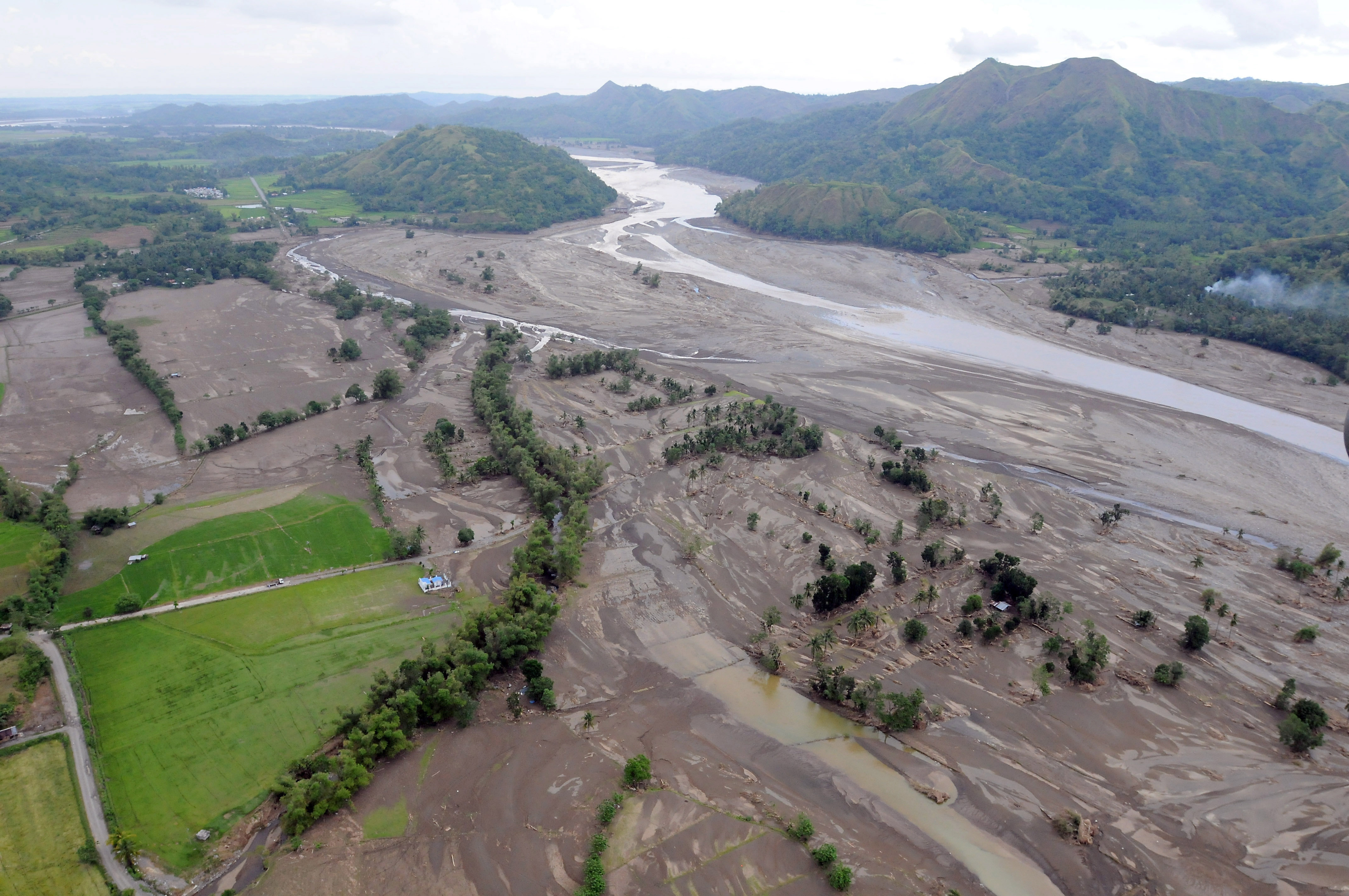 080627-N-5961C-002 PANAY ISLAND, Philippines (June 27, 2008) High above Panay Island, standing water is visible after the wake of Typhoon Fengshen. At the request of the government of the Republic of the Philippines, the Nimitz-class aircraft carrier USS Ronald Reagan (CVN 76) is off the coast of Panay Island providing humanitarian assistance and disaster response in the wake of Typhoon Fengshen. Ronald Reagan and other U.S. Navy ships are operating in the 7th Fleet area of responsibility to promote peace, cooperation and stability. U.S. Navy photo by Senior Chief Mass Communication Specialist Spike Call (Released)